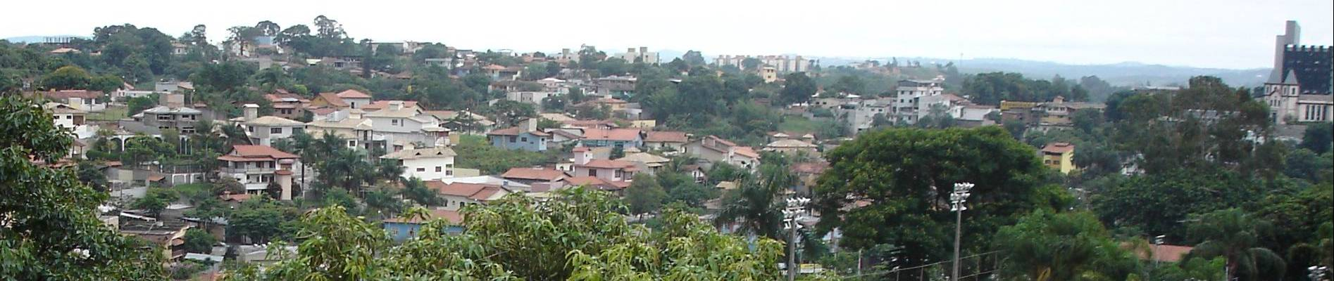 View over central Contagem. (del) (cur) 23:35, 13 September 2005 . . Mateuszica (Talk) . . 1894x400 (127,035 bytes) (picture i took myself it is the center of contagem)